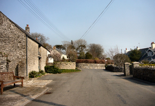 East End of Colwinston